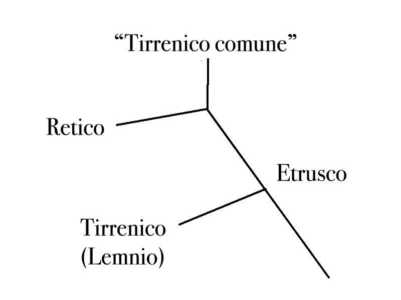 Tyrrhenian language family model (Italian) Source: De Simone Carlo, Marchesini Simona (2013) La lamina di Demlfeld Fabrizio Serra Editore (ita)